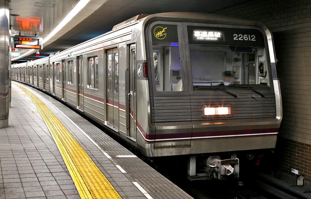 Osaka Municipal Subway 22 series EMU at Temmabashi Station, Tanimachi Line.